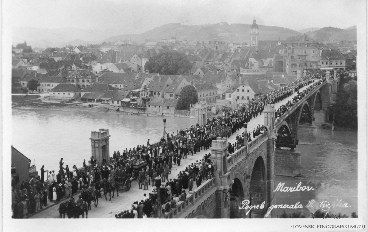 Postcard of Rudolf Maister funeral